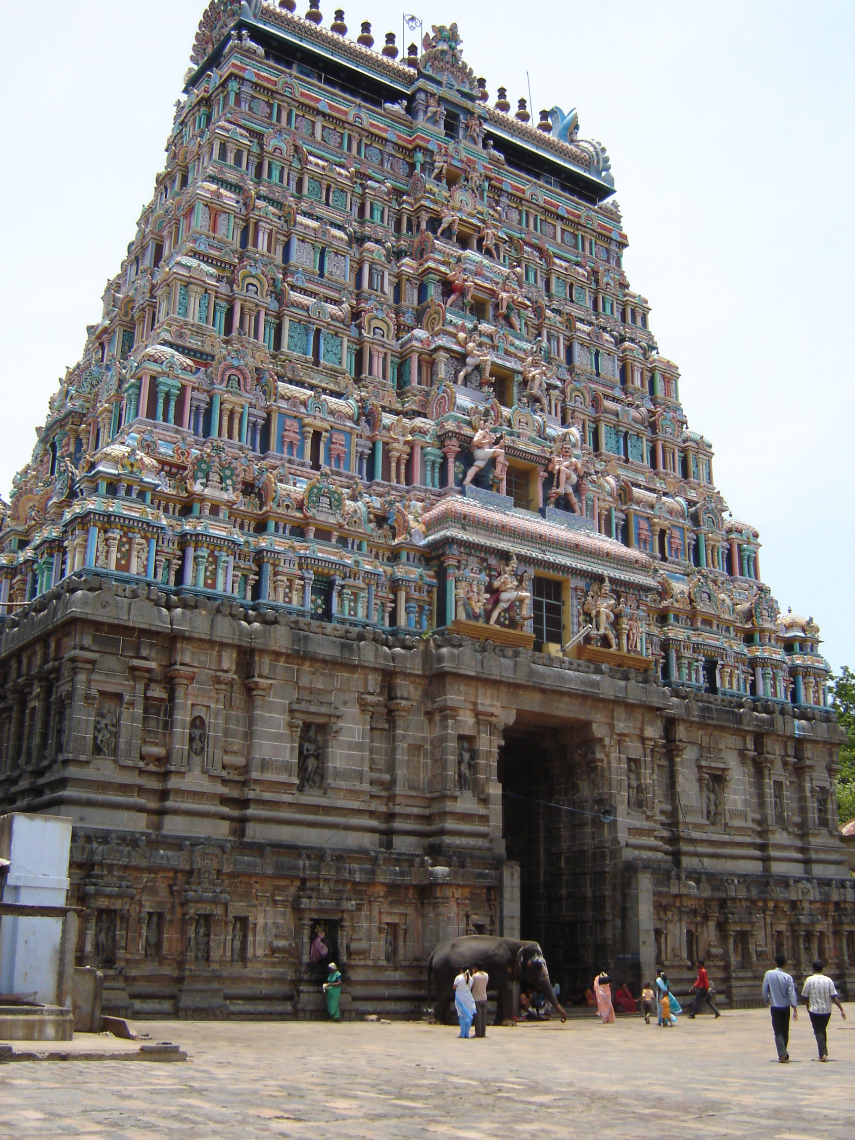 East Gopuram of the Nataraja temple in Chidambaram, Tamil Nadu, India.